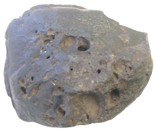 Volcanic bomb with the diameter of about 10 cm